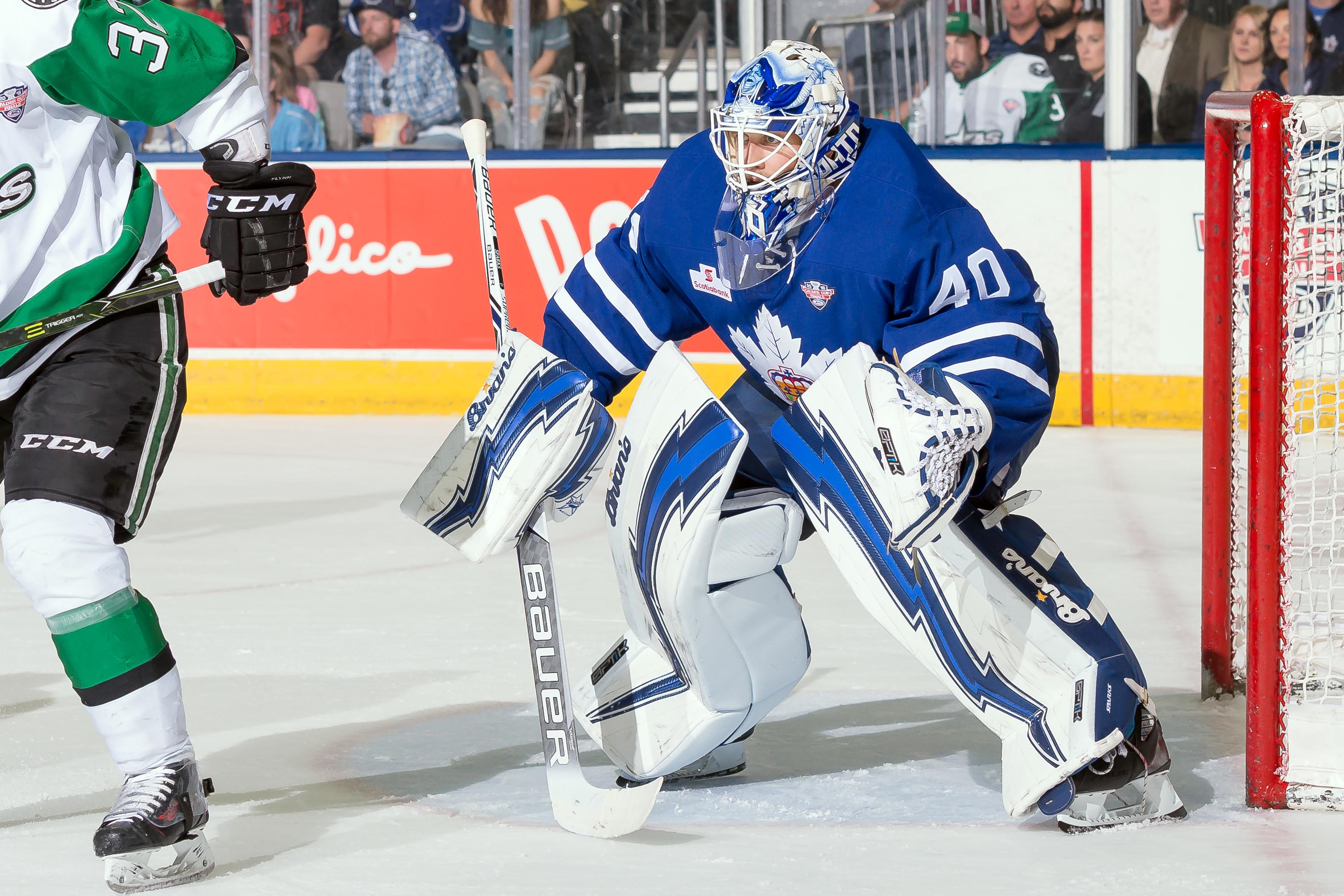 Photo: Christian Bonin